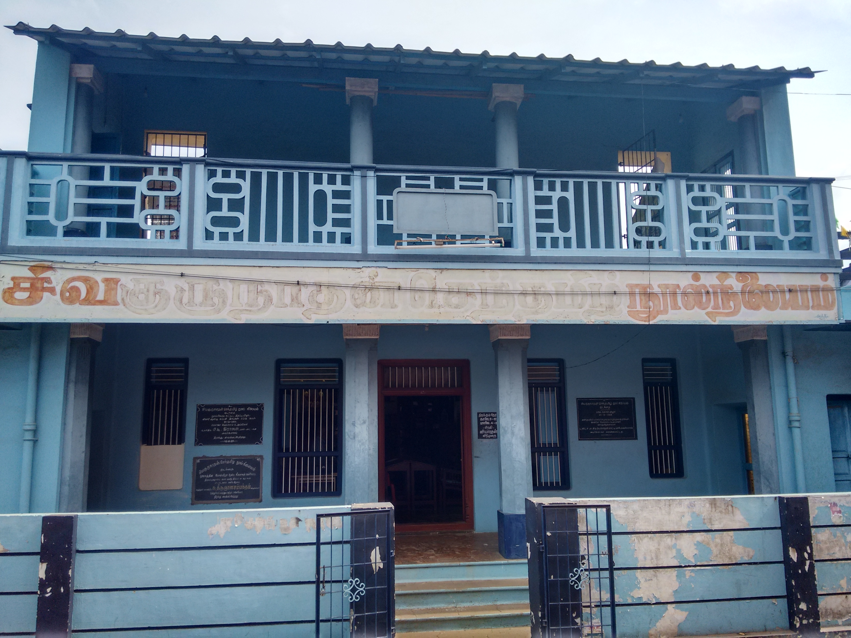 Sivagurunathan library, Kumbakonam சிவகுருநாதன் செந்தமிழ் நூல் நிலையம், கும்பகோணம்